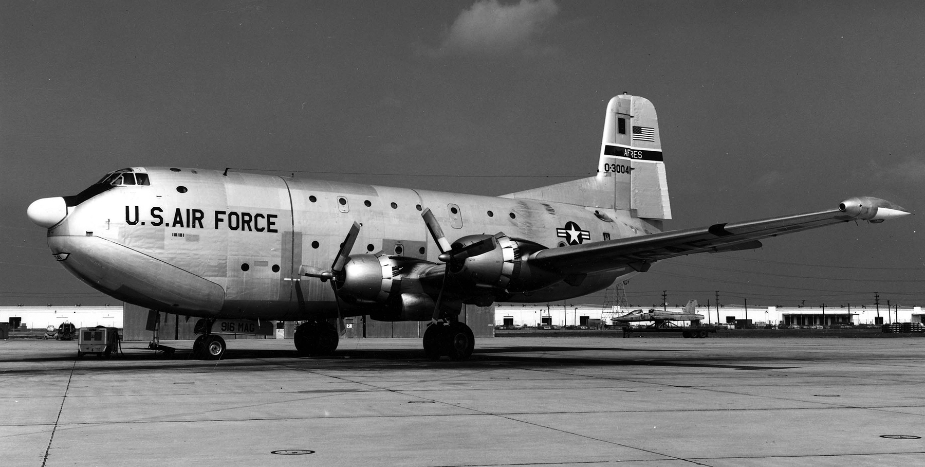 A U.S. Air Force Douglas C-124C Globemaster II (s/n 53-041) of the Air Force Reserve’s 77th Military Airlift Squadron, 916th Military Airlift Group, based at Carswell Air Force Base, Texas (USA). The AFRES’ C-124 groups flew more than 1,200 airlift missions to Southeast Asia. The C-124 53-041 was retired to the MASDC as CQ327 on 19 January 1973.